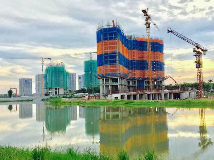 Ecopark Hung Yen